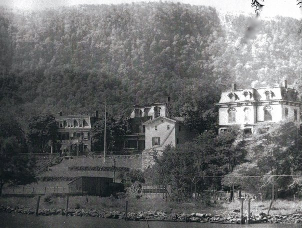 View of Front Street from the Hudson River. Modern day Emeline Park.